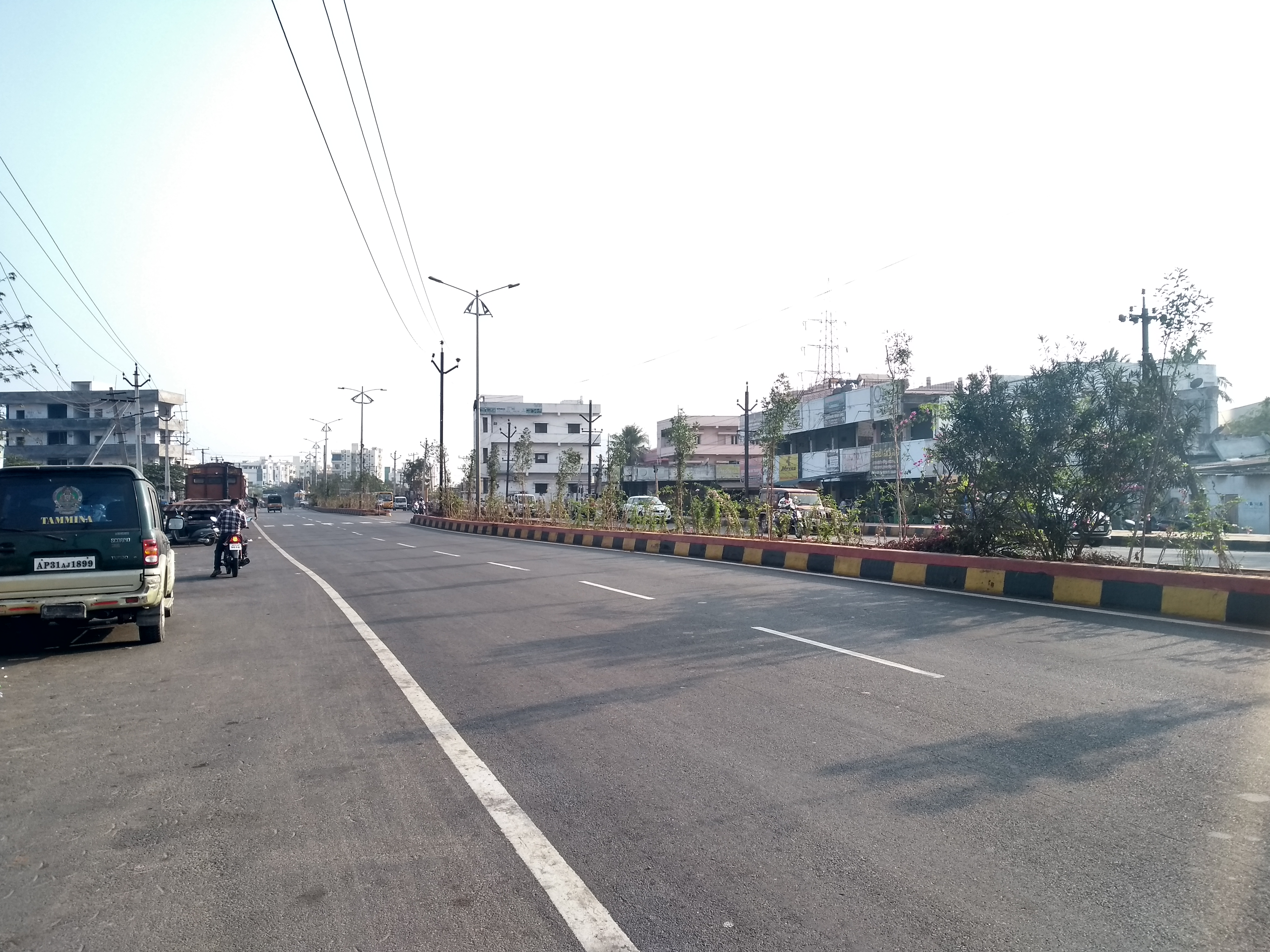 Chinagantyada